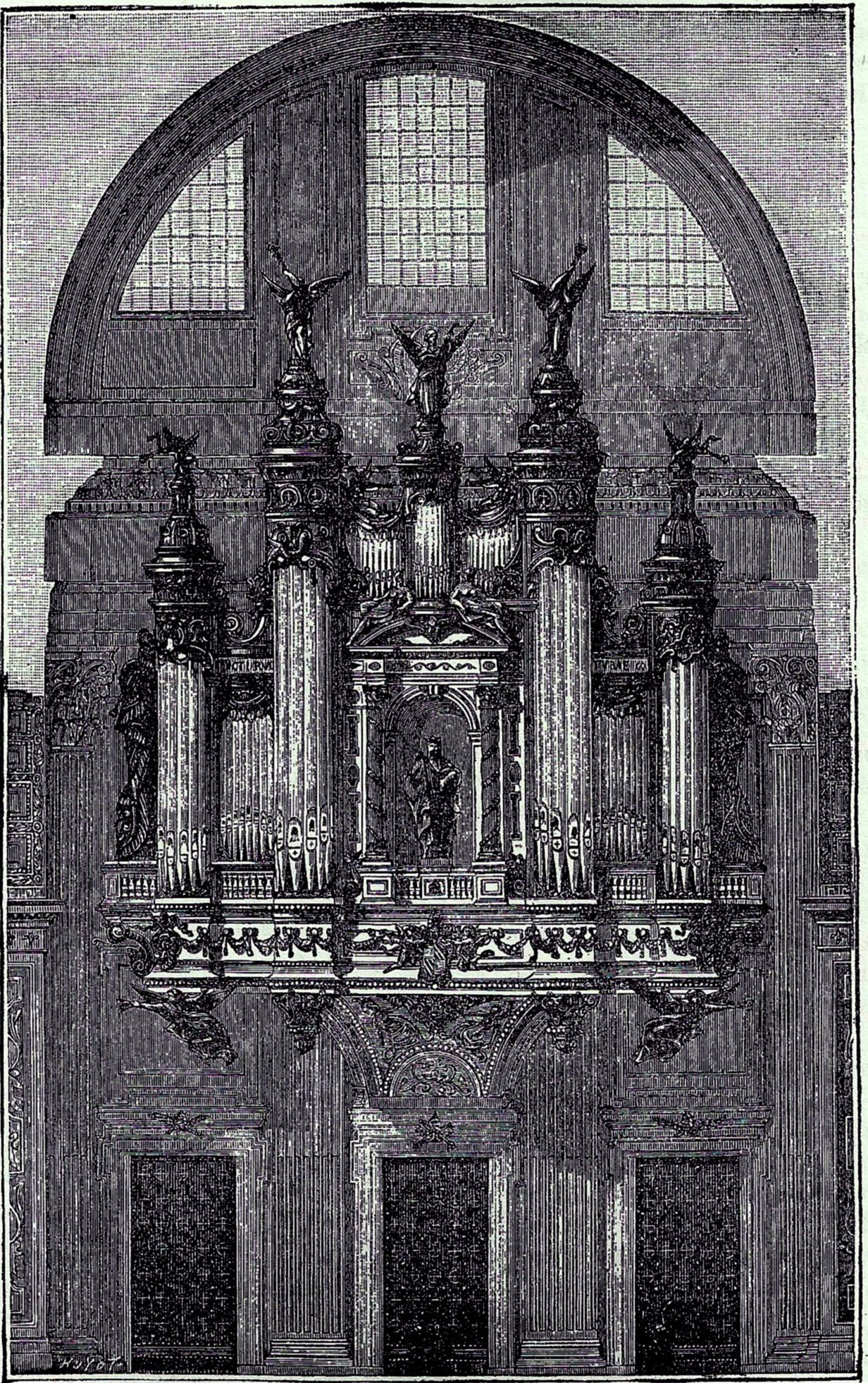 Aristide Cavaillé-Coll's and Alphonse Paul Joseph Marie Simil's (* 1841) proposal for an organ at St. Peter's Rome